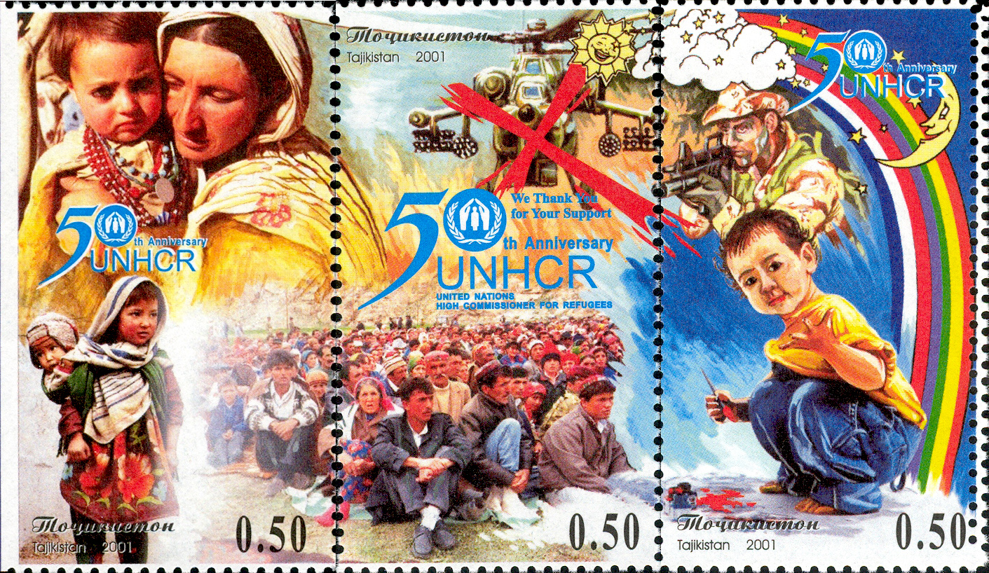 United Nations High Commissioner for Refugees 50th anniversary. Post of Tajikistan 2001.